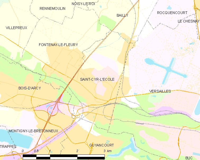 Map of French municipality Saint-Cyr-l'École